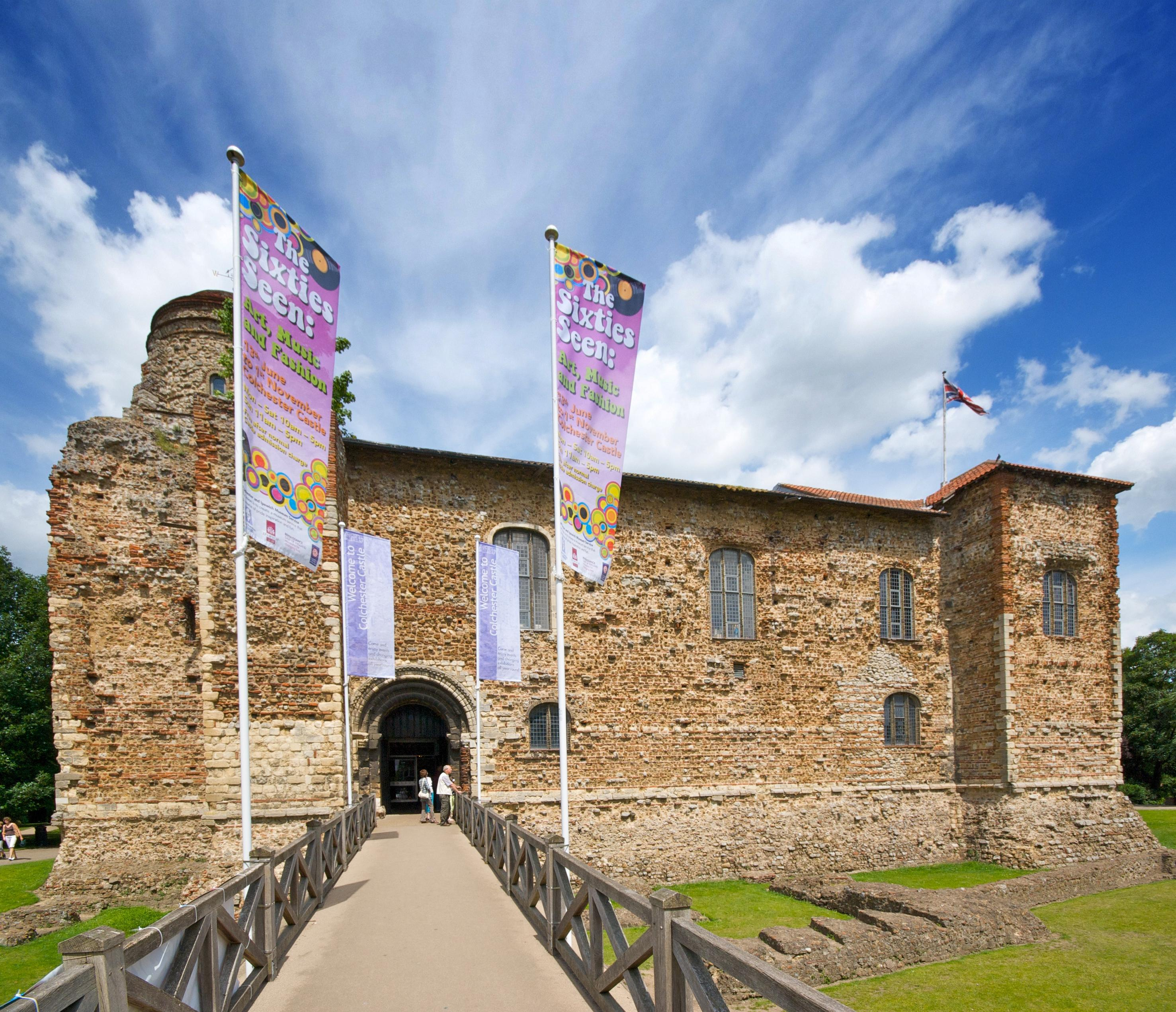 Colchester Castle in Colchester, Essex. Taken with a Nikon D40x and a Sigma 10-20mm wide-angle lens.